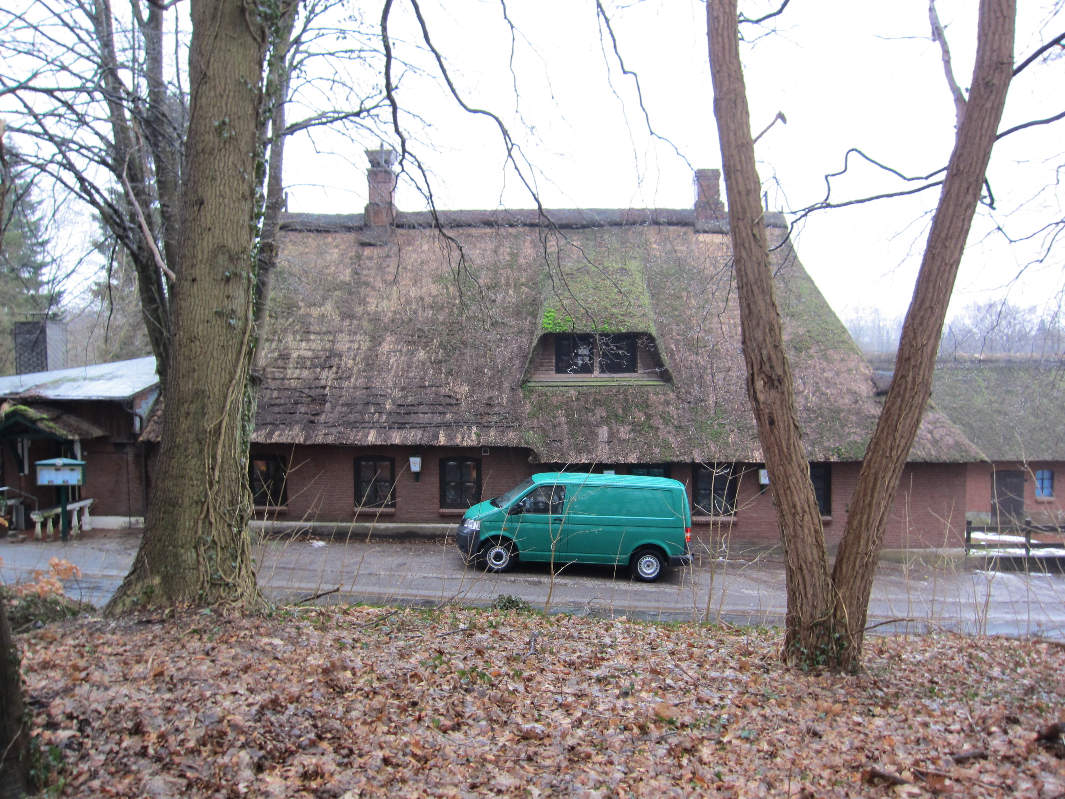 Cottage "Ihlkate" in Mielkendorf